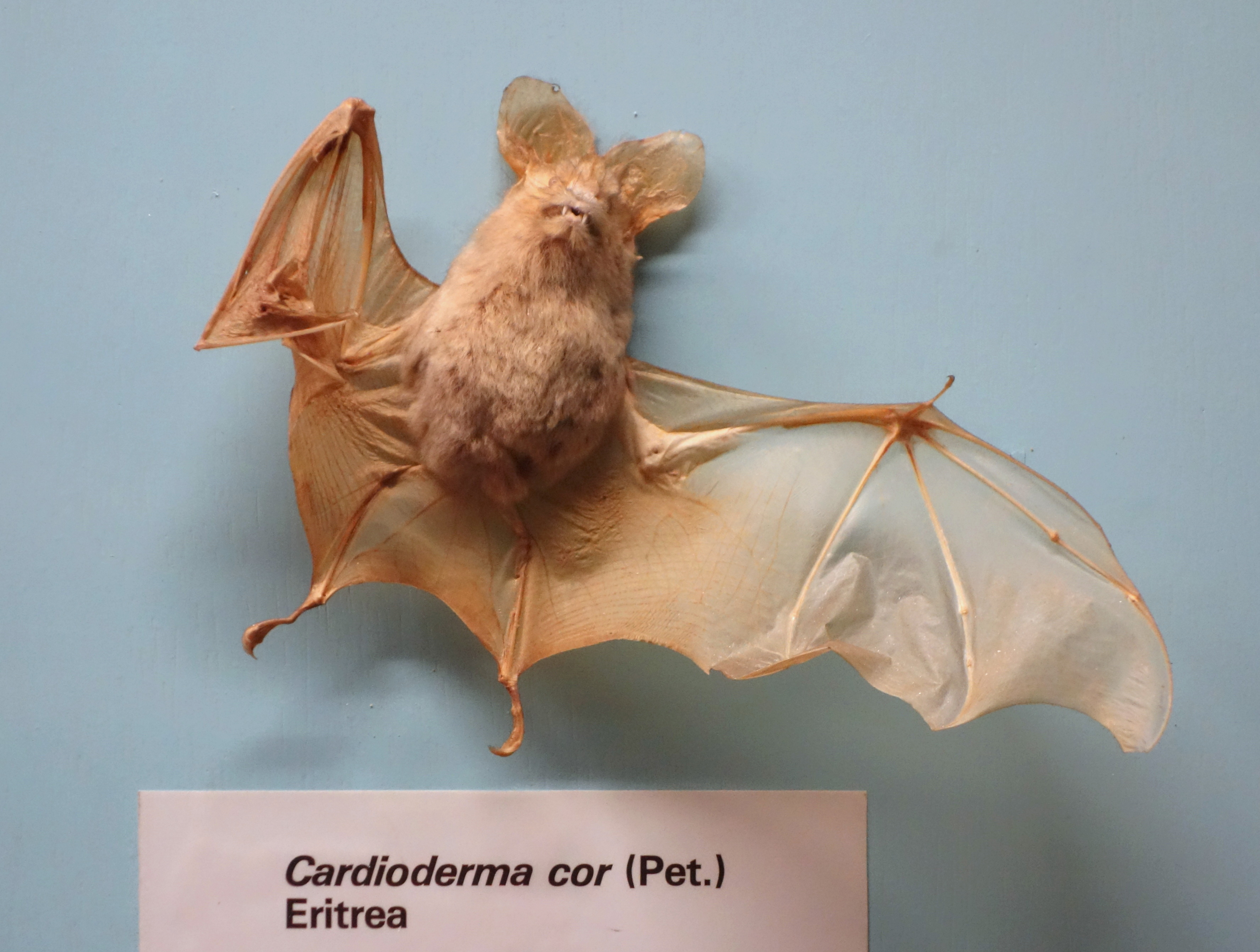 Exhibit in the Museo Civico di Storia Naturale di Genova, Via Brigata Liguria, 9, 16121, Genoa, Italy.